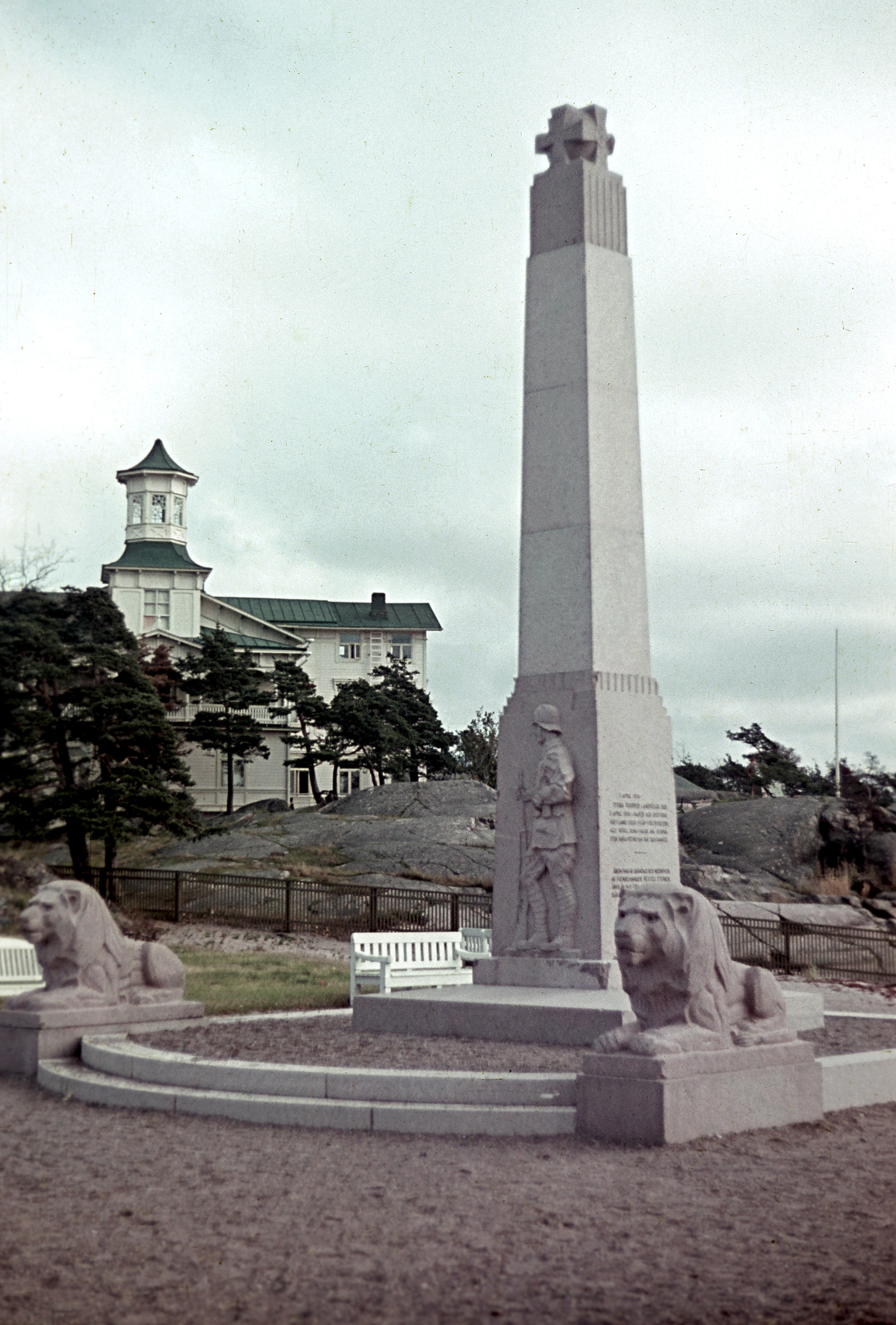 Statue of Liberty in Hanko, Finland. The memorial of the German Baltic Sea Division landing in Hanko during the 1918 Finnish Civil War. A work by the sculptor Bertel Nilsson.